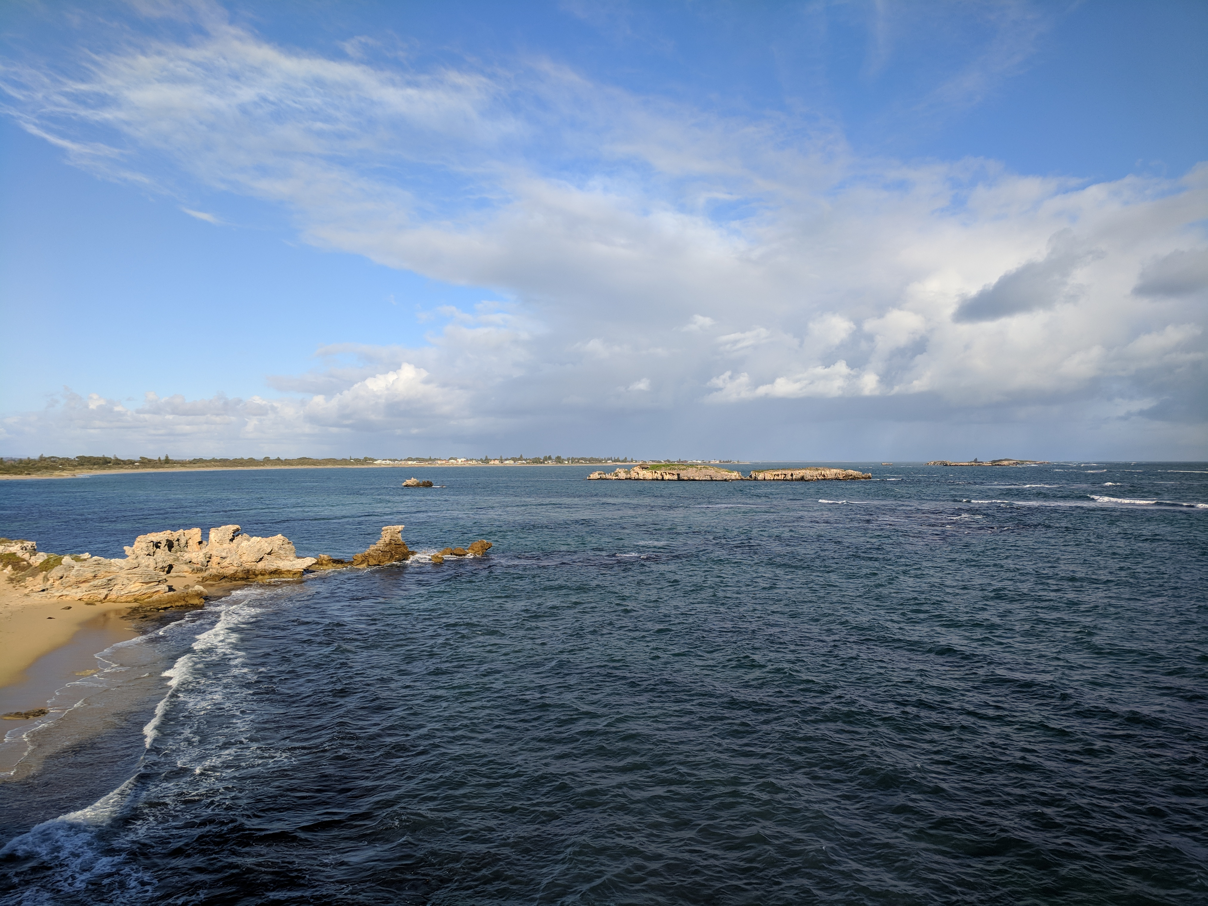 Part of the Point Peron area